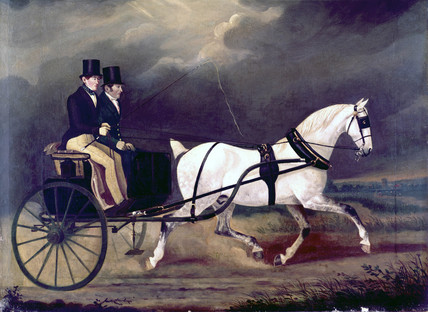 A Stanhope gig, c 1815-1830 Oil painting of a Stanhope gig carrying two well-dresed gentlemen, drawn by a white horse. Gigs were used by people who often needed to make short quick journeys with minimum fatigue to the horse. They were used by commercial travellers, farmers, doctors and others. The Stanhope gig was a very popular design, first built in 1815 by Tilbury, a London coachbuilder, for the Hon Fitzroy Stanhope.